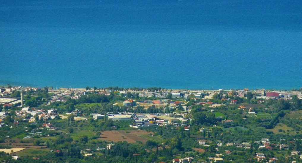 Kokkinos Milos, neighborhood of Patras, Achaia, Greece. View from Omplos Mt.